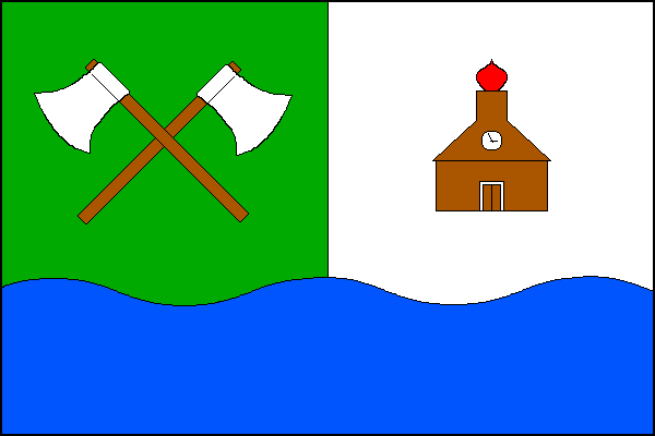 Municipal flag of Malá Úpa village, Trutnov District, Czech Republic.